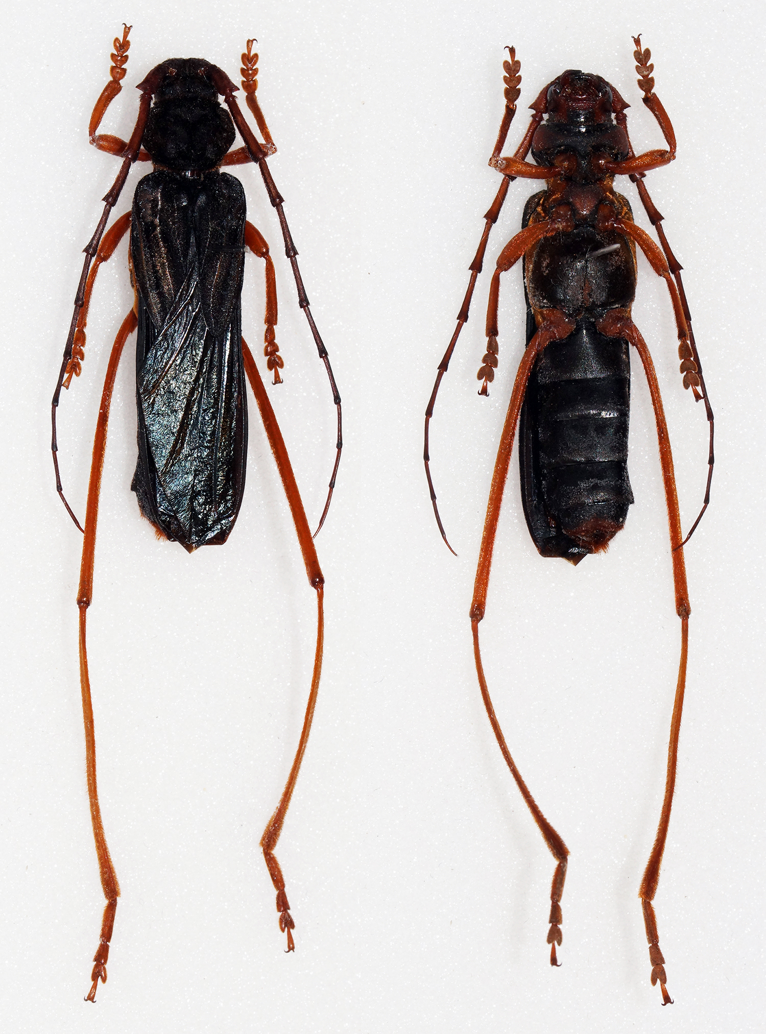 Lepesme,1952 Sex: Male Data: 04-2011 - Pamora - Padyere - Nebbi District - Uganda Size: 42mm